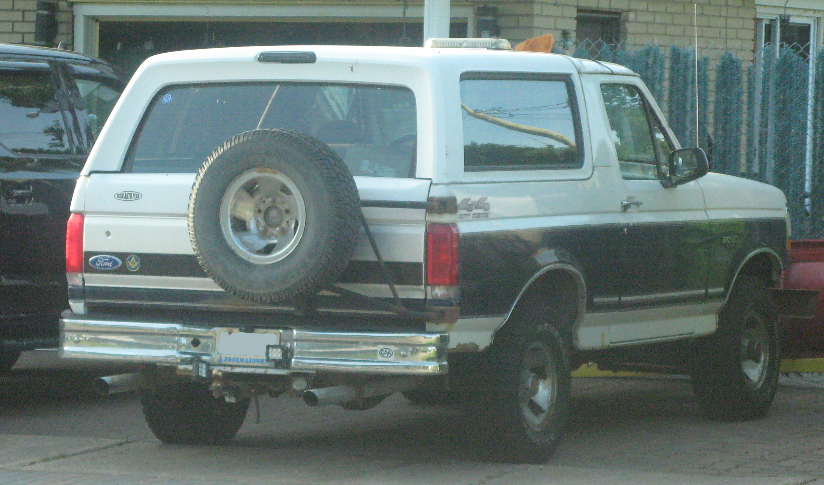 1994 Ford Bronco photographed in Sault Ste. Marie, Ontario, Canada